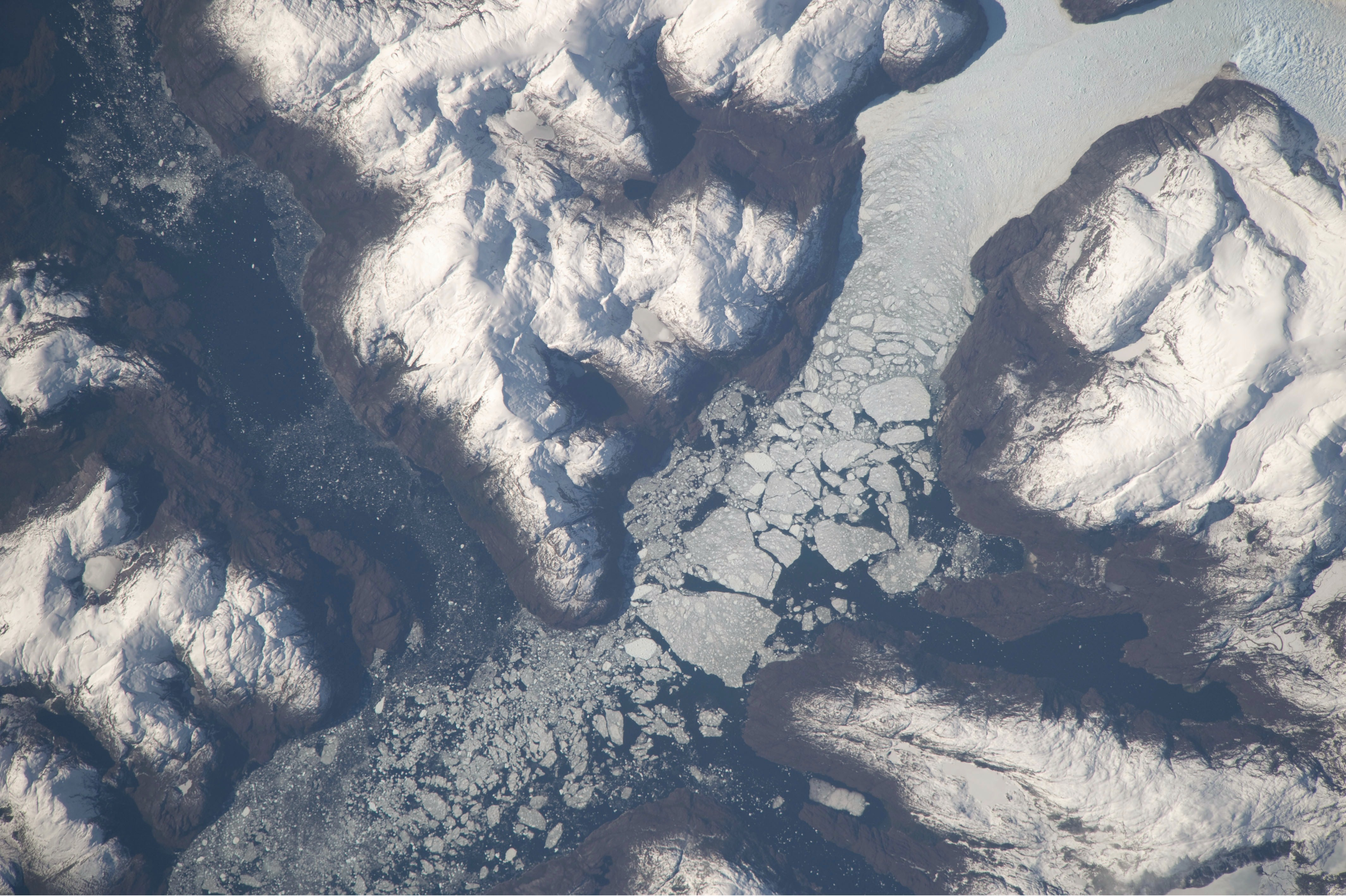 This detailed astronaut photograph shows the merged outlet of Penguin Glacier and HPS 19 into a fjord carved into the snow-covered mountains of the southern Andes. The designation HPS stands for Hielo Patagónico Sur (Southern Patagonian Icefield) and is used to identify glaciers that have no other geographic name. Ice flowing into the fjord begins to break up at image centre, forming numerous icebergs. The largest visible in this image is approximately 2 kilometres in width. The large ice masses visible at image centre have a coarse granular appearance due to variable snow cover, and mixing and refreezing of ice fragments prior to floating free. loaction: -50.008122, -74.012041